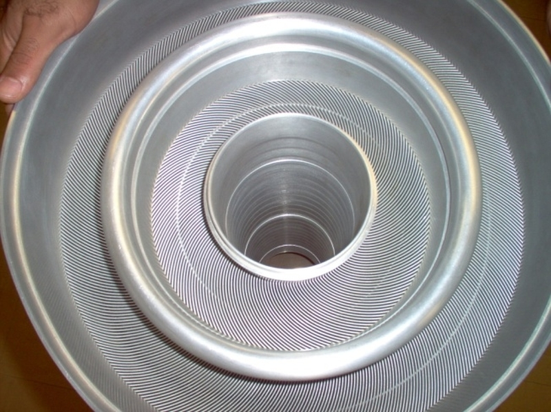 High Flux Isotope Reactor Fuel Assembly Photo